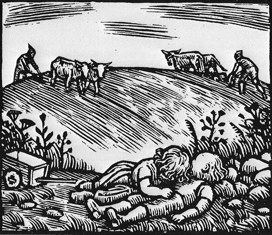 The Children Sali and Vrenchen, ("A Village Romeo and Juliet" by Gottfried Keller, woodcut)